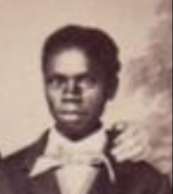 A 19th century portrait of African Basel missionary, David Asante. Identity of photographer is unknown